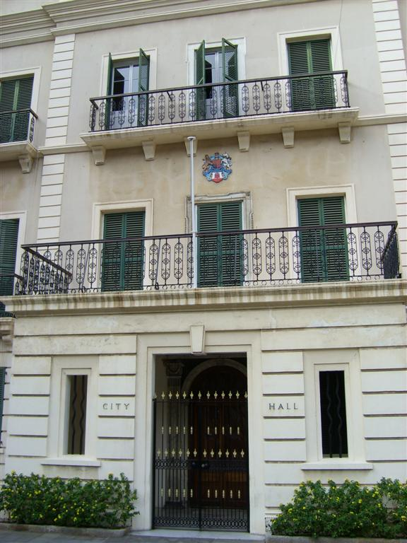 Centre section of the façade of the City Hall at John Mackintosh Square, Gibraltar.